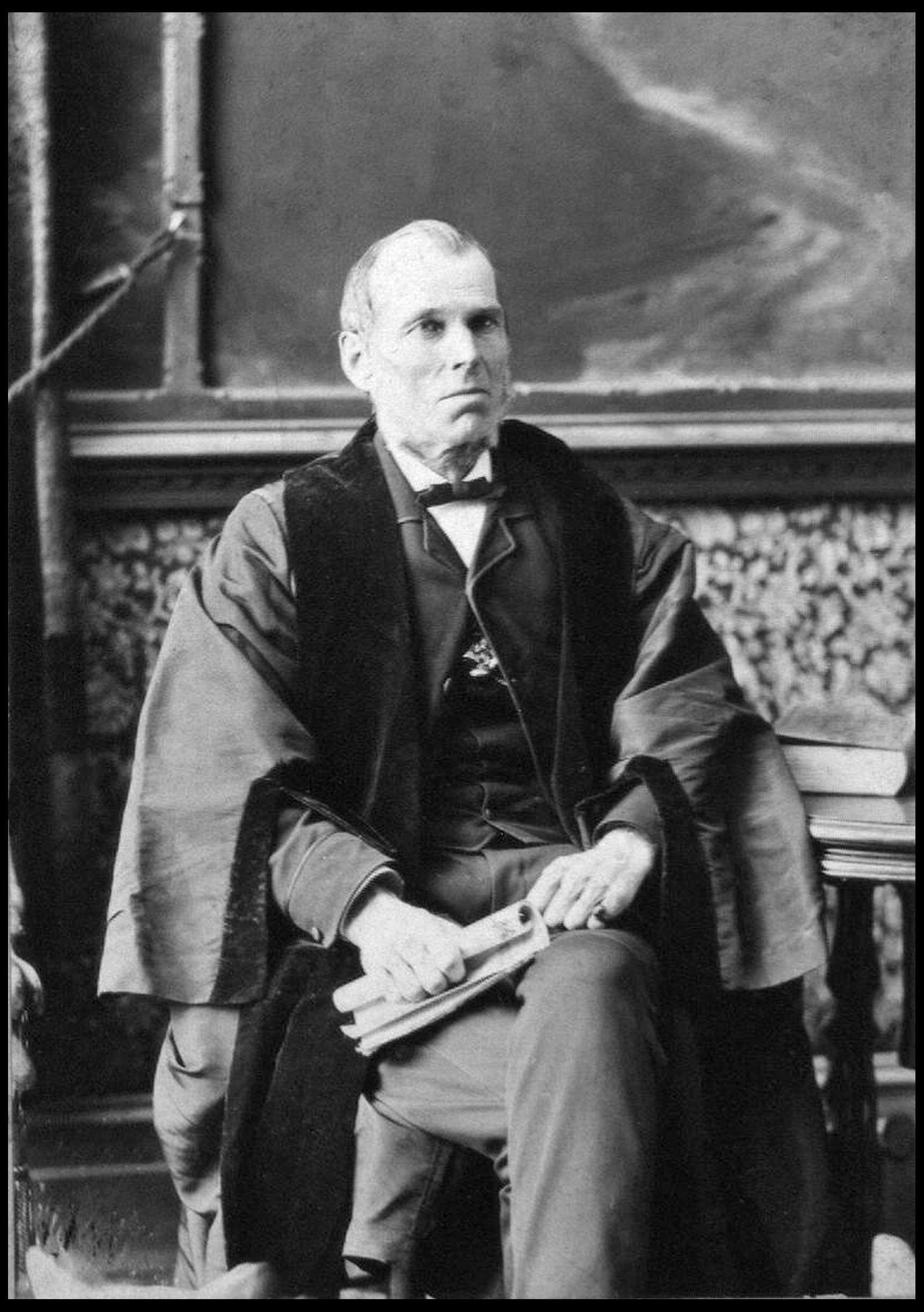 William Pittman Lett, First Clerk, City of Ottawa, Ontario Canada, from 1855 to 1891, in Clerk regalia